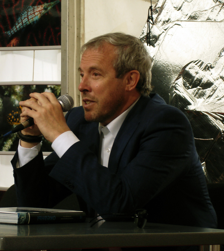 Photo of Andrey Makarevich, russian rock musician